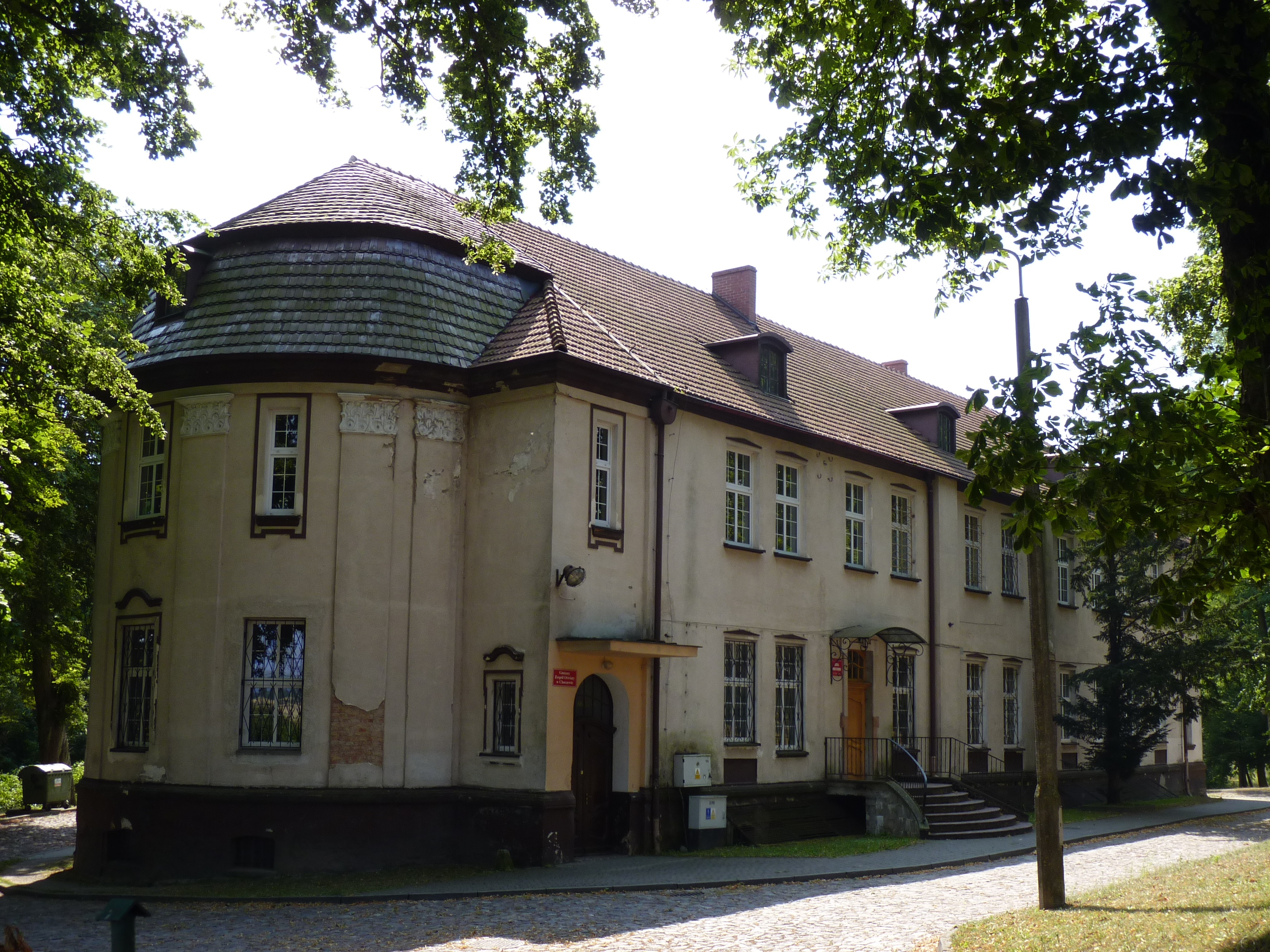 Choczewo Manor House, home of the Choczewo municipal education team